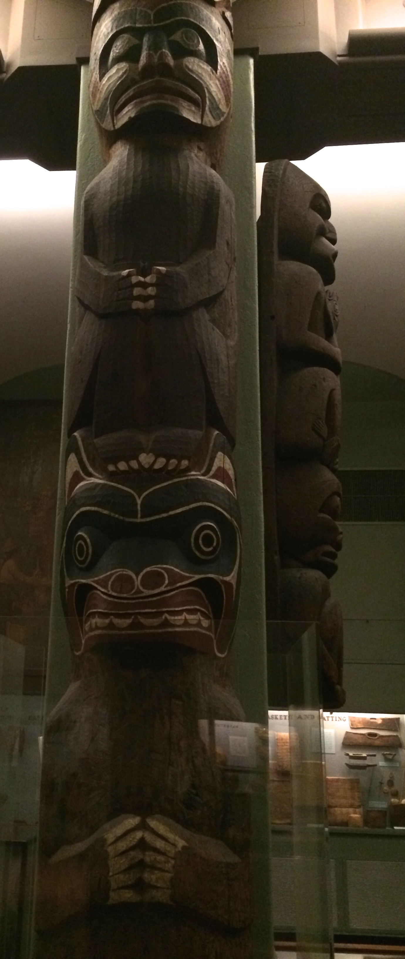 Hall of Northwest Coast Indians, American Museum of Natural History